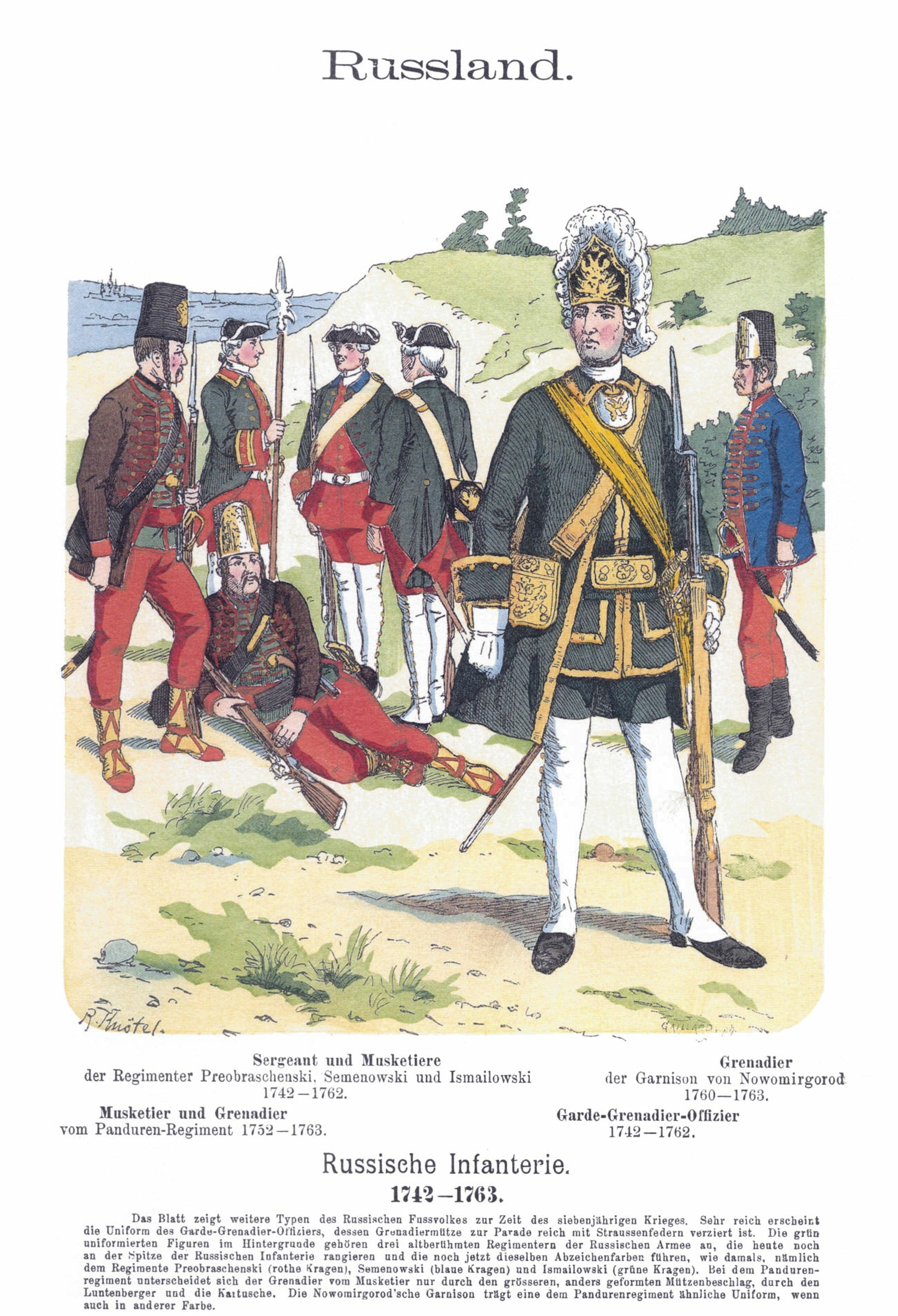 Rußland. Russische Infanterie. 1742-1763